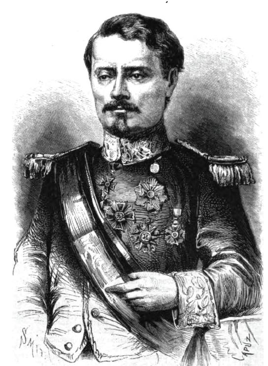 Portrait of General Jose Maria Medina Published in 1869